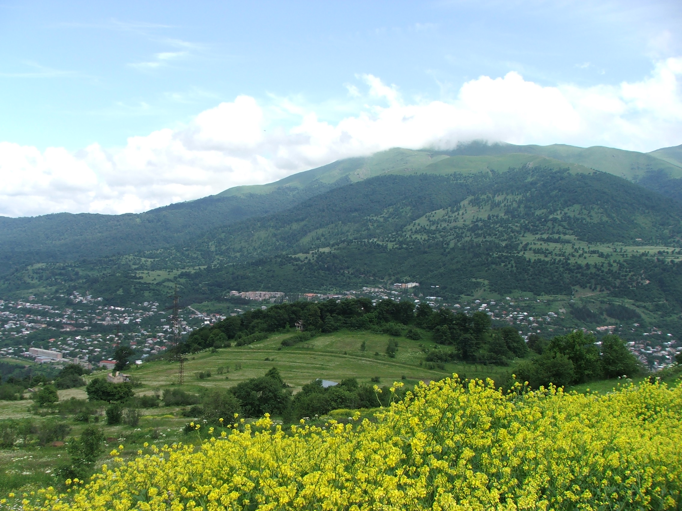 Dilijan (View from the mountain)